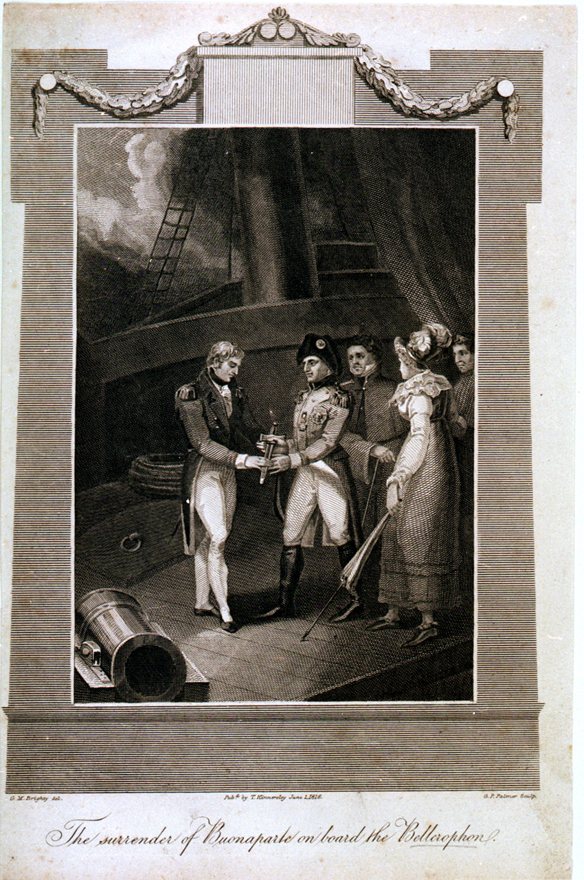 Stylised and popular print showing the moment of Napoleon's arrival aboard HMS Bellerophon, and his surrender to Captain Frederick Lewis Maitland.